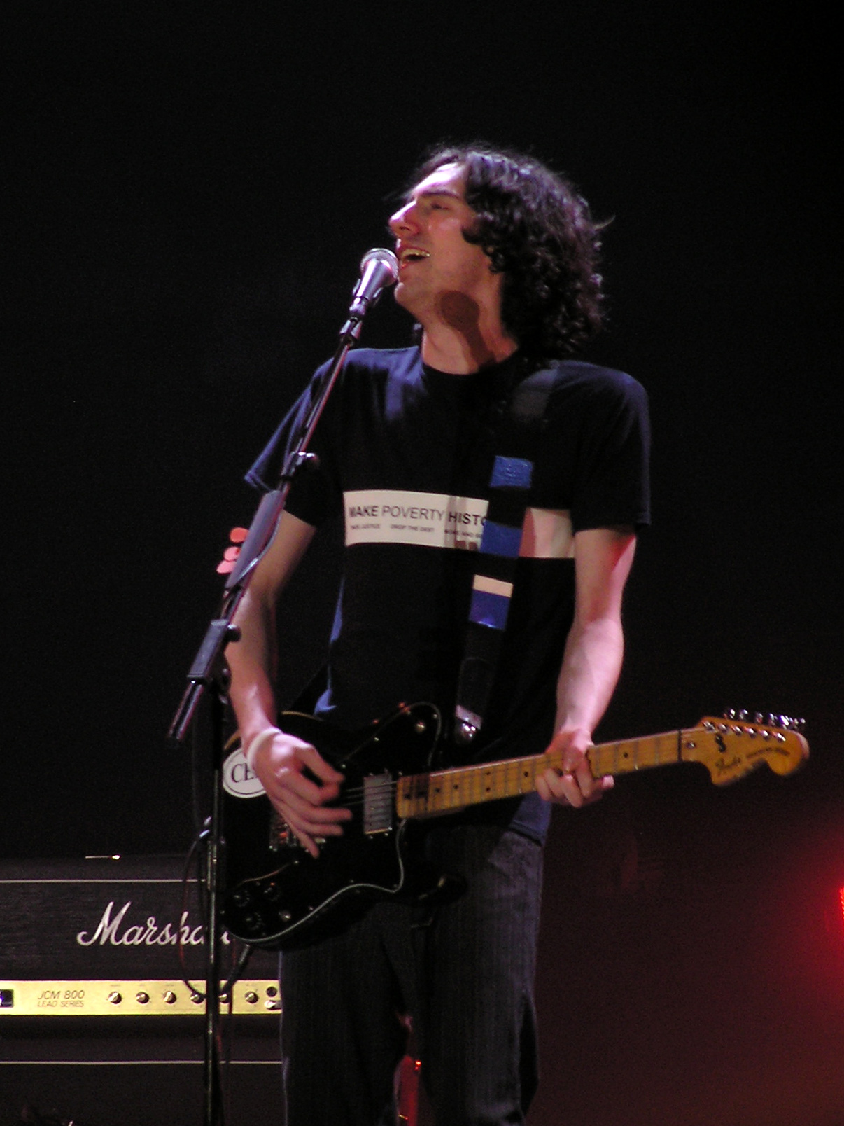 Gary Lightbody, Snow Patrol frontman, performs with the band during the Tsunami Relief Cardiff concert in January 2005.